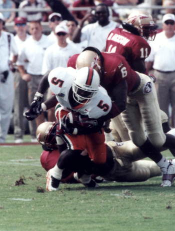 Miami Hurricanes running back Edgerrin James being tackled by an Florida State Seminoles defenders Derrick Gibson (6) and an unidentified player at Doak Campbell Stadium - Tallahassee, Florida